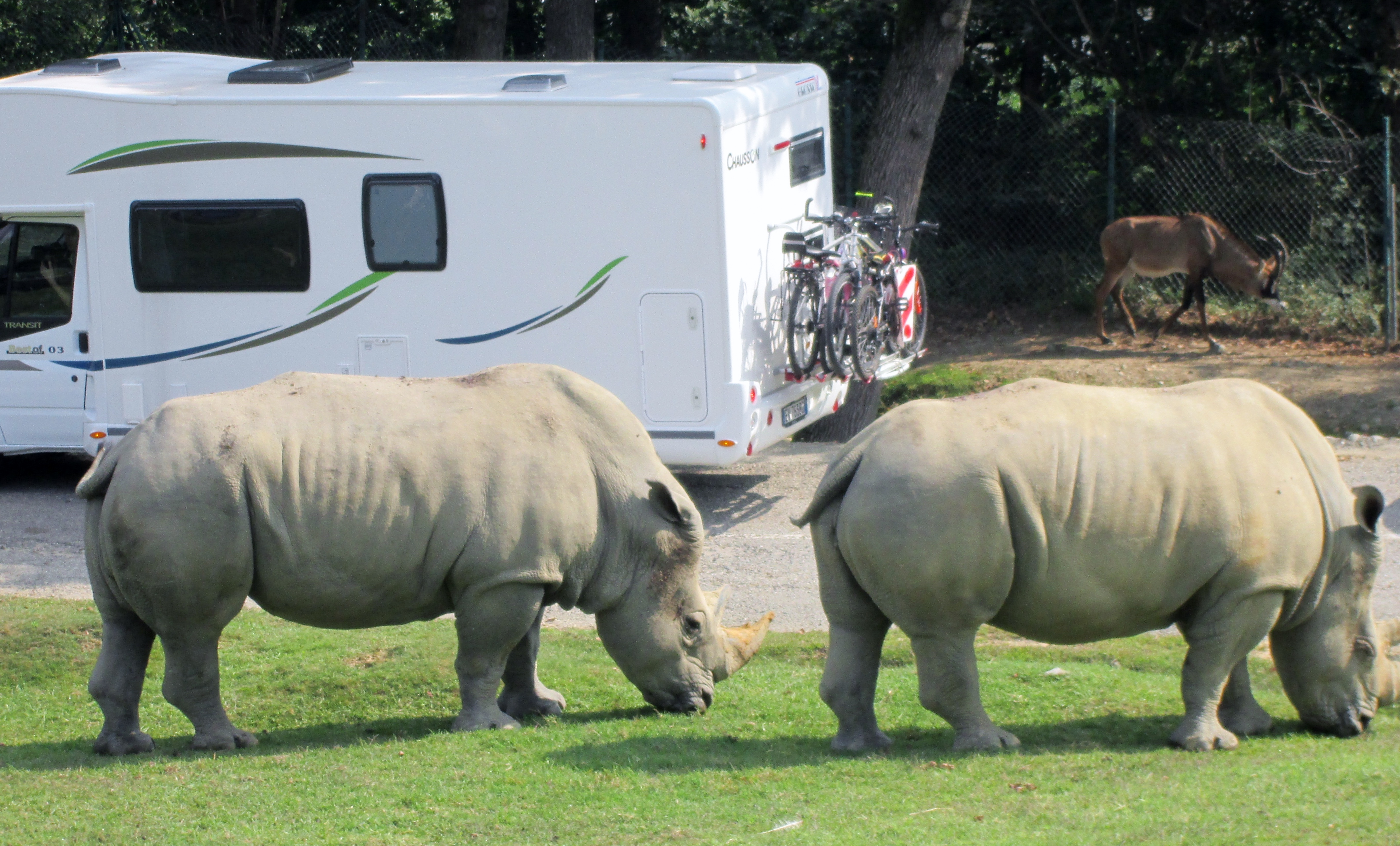 Ceratotherium simum in Pombia Safari Park ITALY